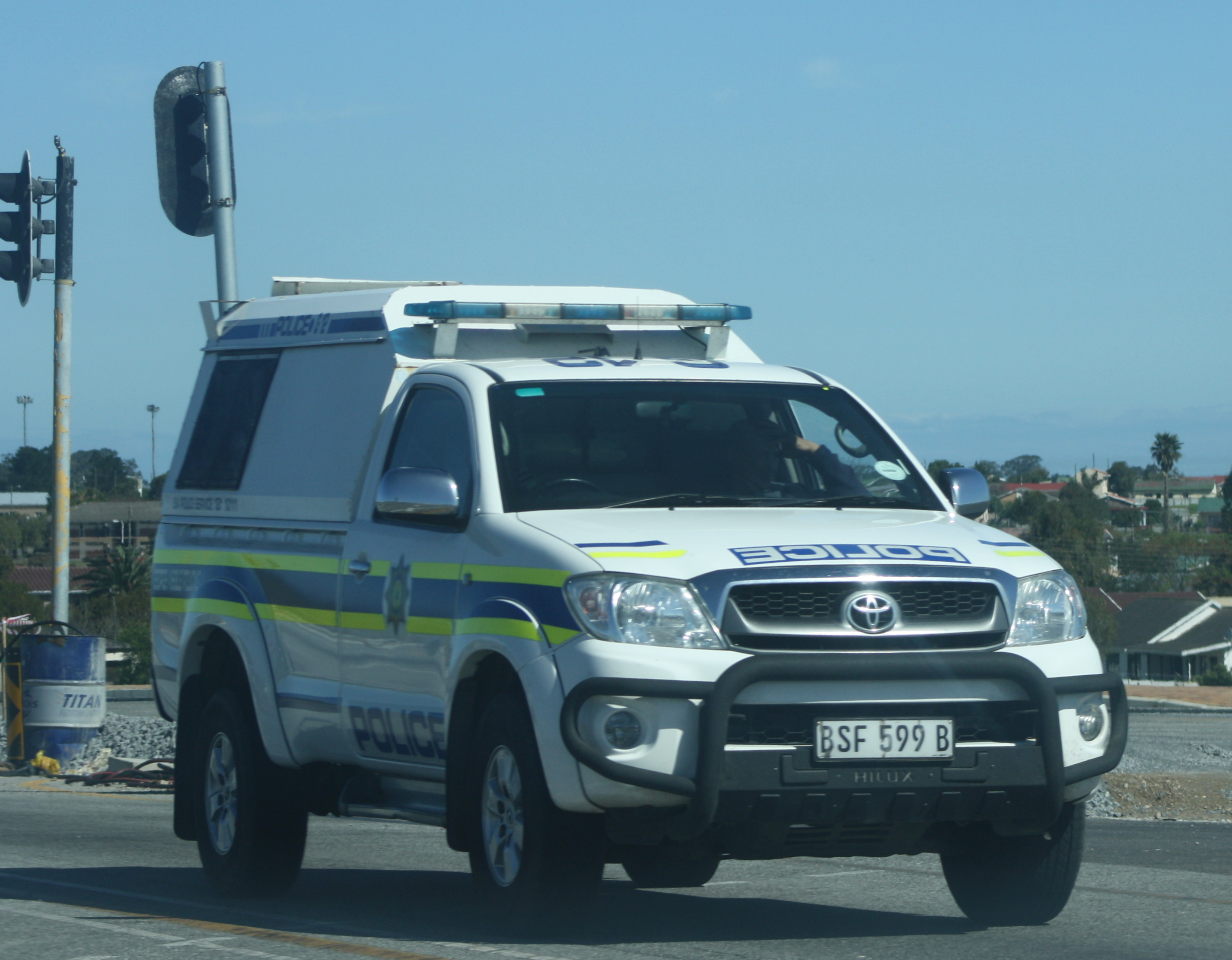 South African Police Toyota Hilux van